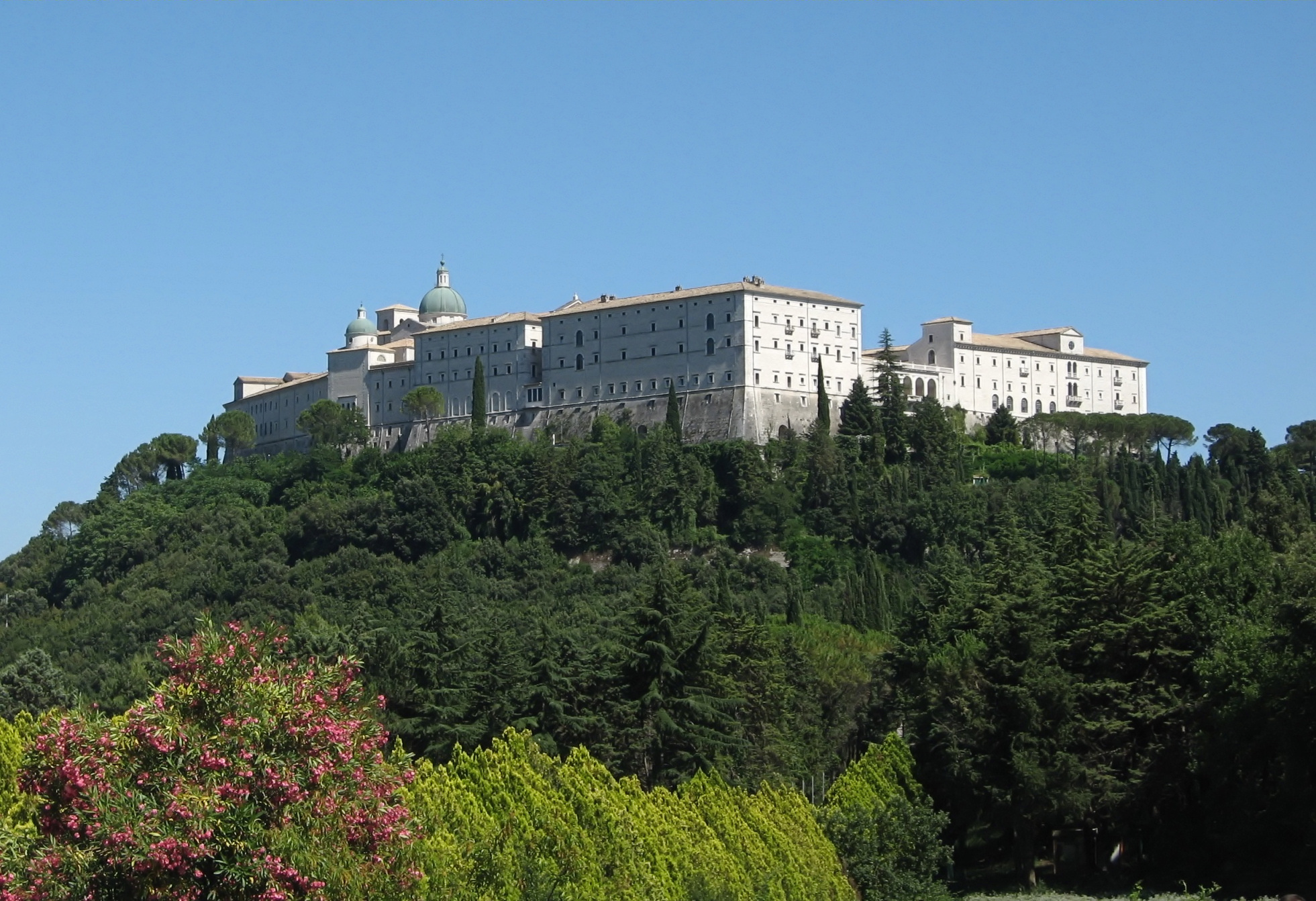 Monte Cassino Arch-Abbey from Polish cemetery